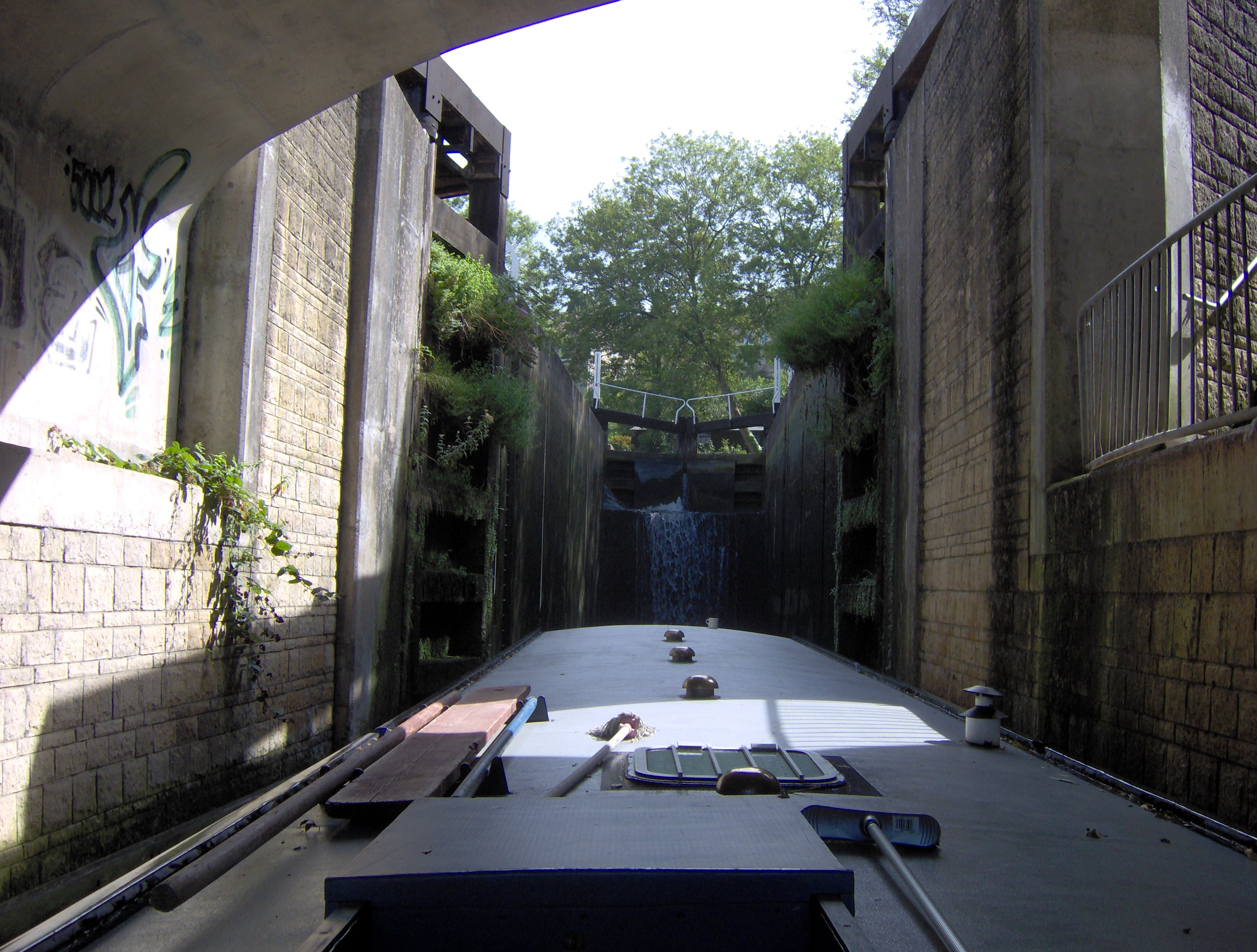 Bath Deep Lock. Taken by Rod Ward August 2006